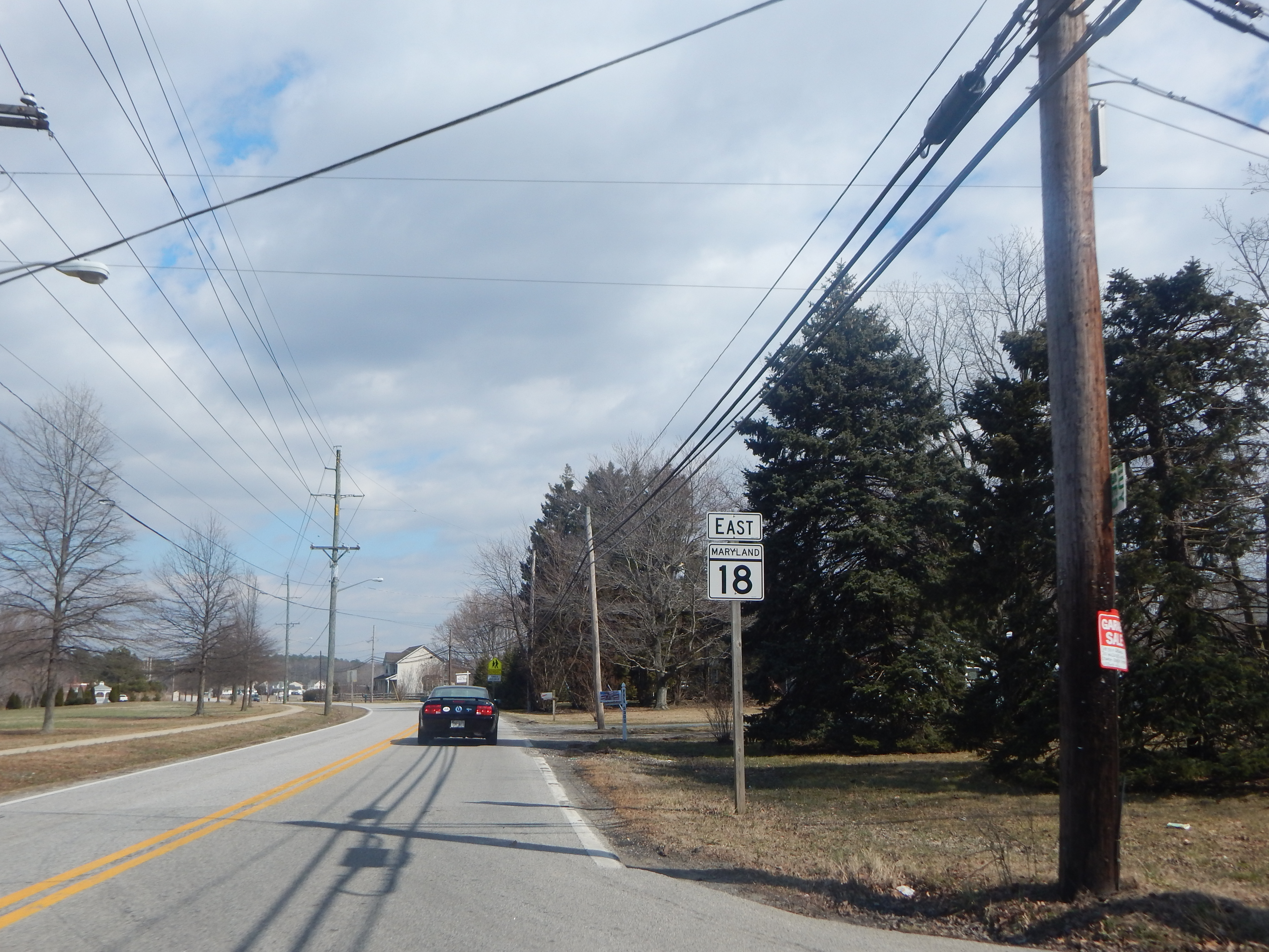 Eastbound Maryland Route 18 (Main Street) at the intersection with Grasonville Cemetery Road in Grasonville.